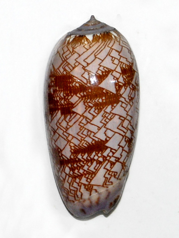 Shell of Oliva porphyria. Museum specimen